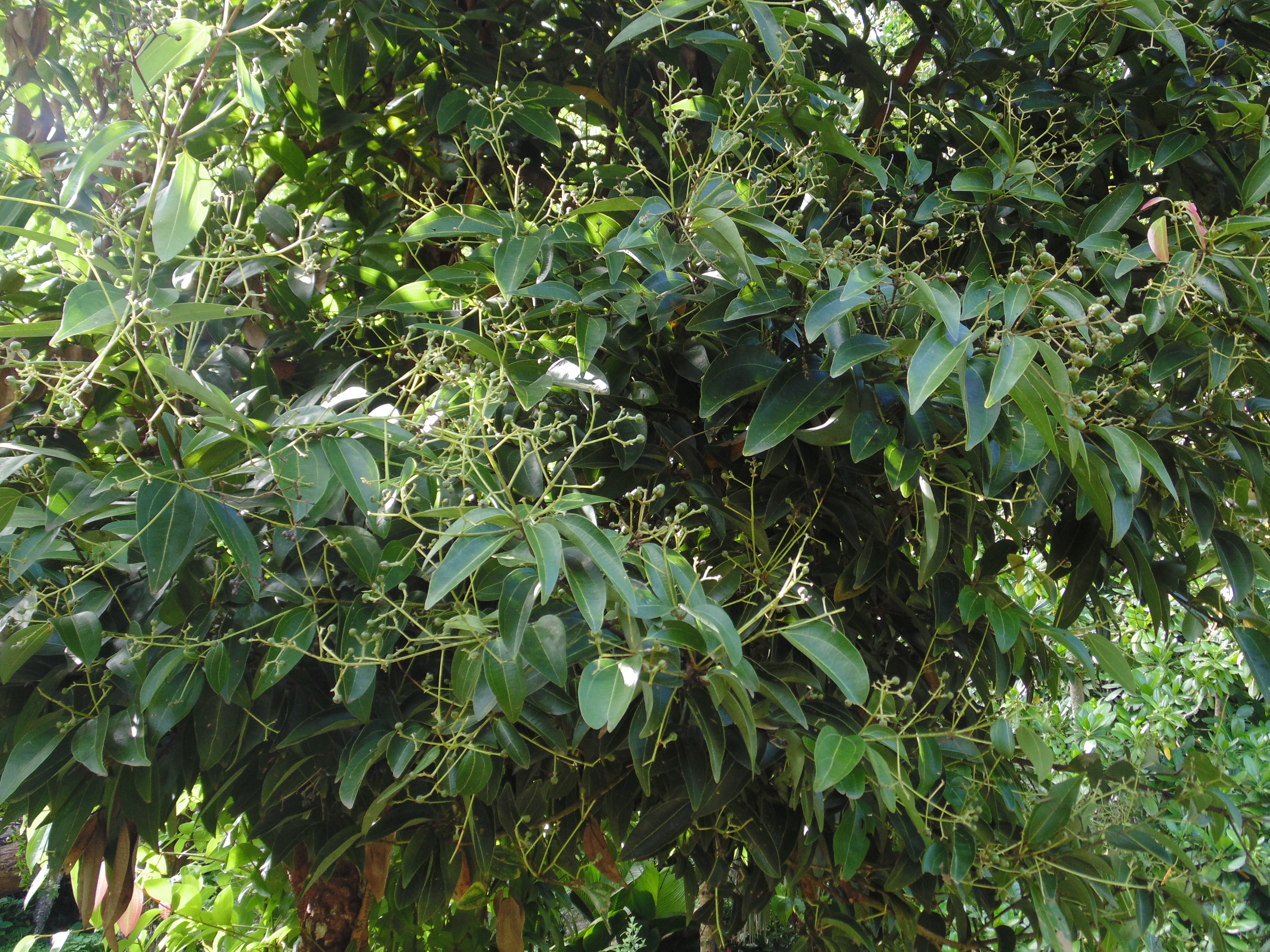 Jardin Du Roi Spice Garden (Mahe)